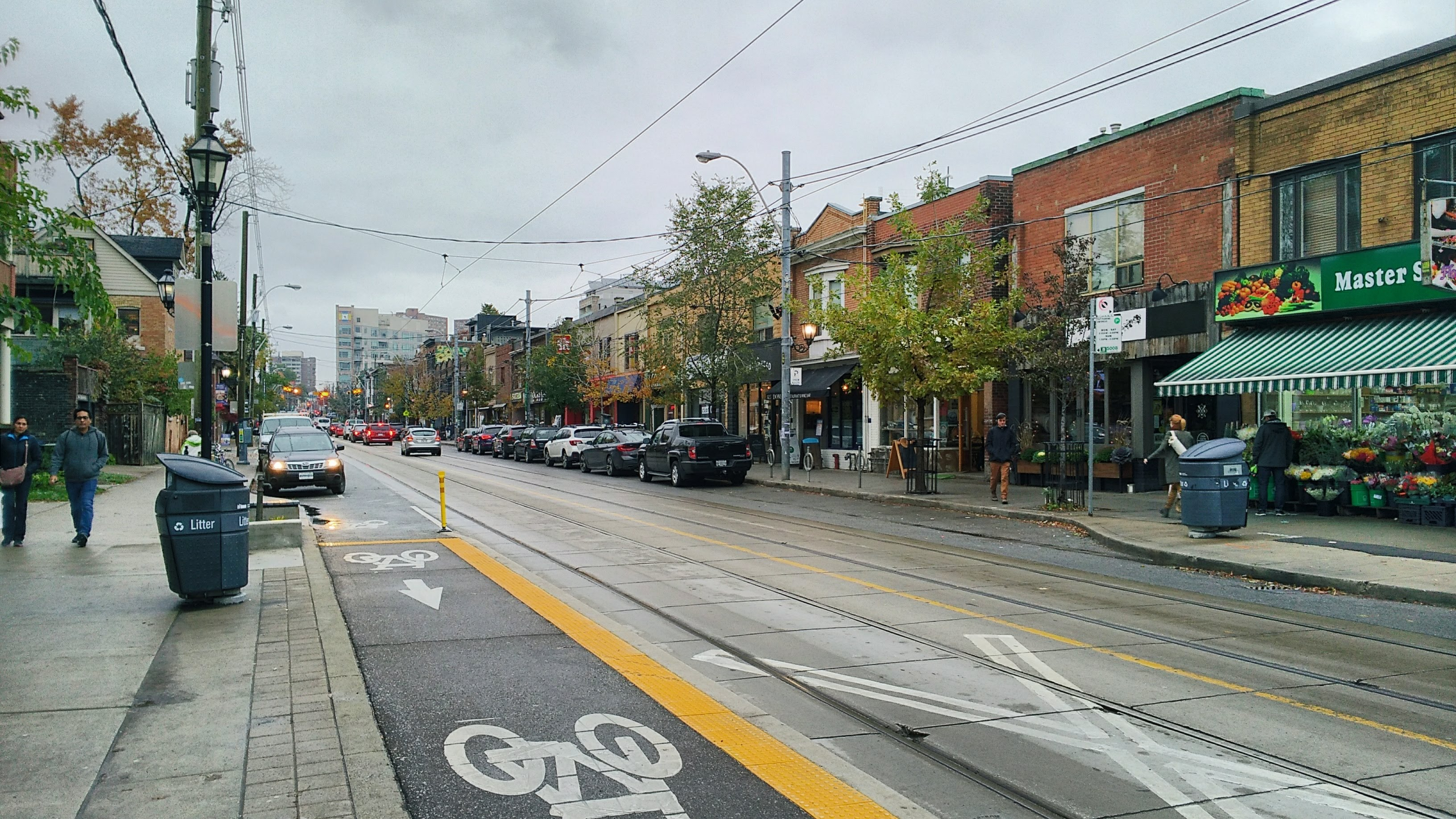 Roncesvalles Avenue looking north from Grenadier Road.